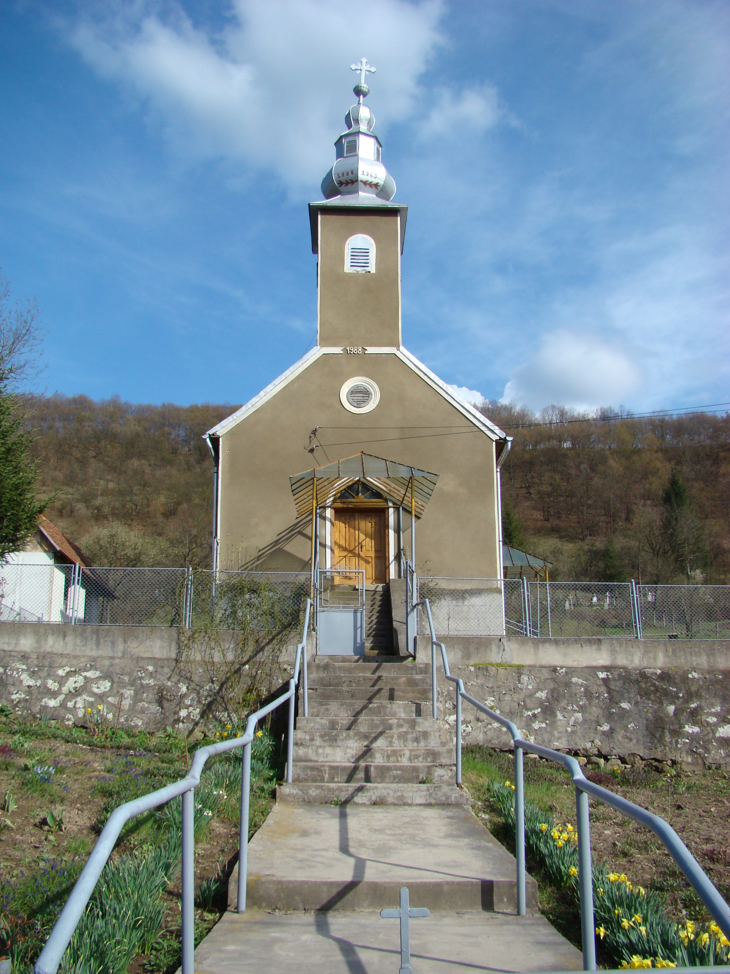 Wooden church in Iosășel, Arad county, Romania